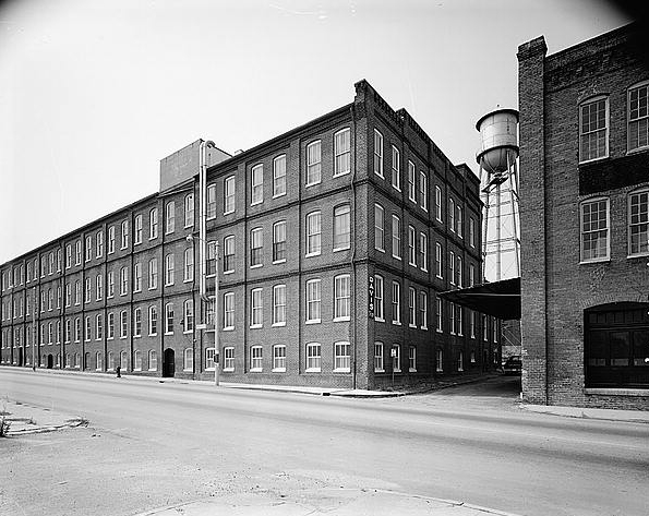 Imperial Tobacco Company warehouse, Craghead Street, Danville, Virginia, USA